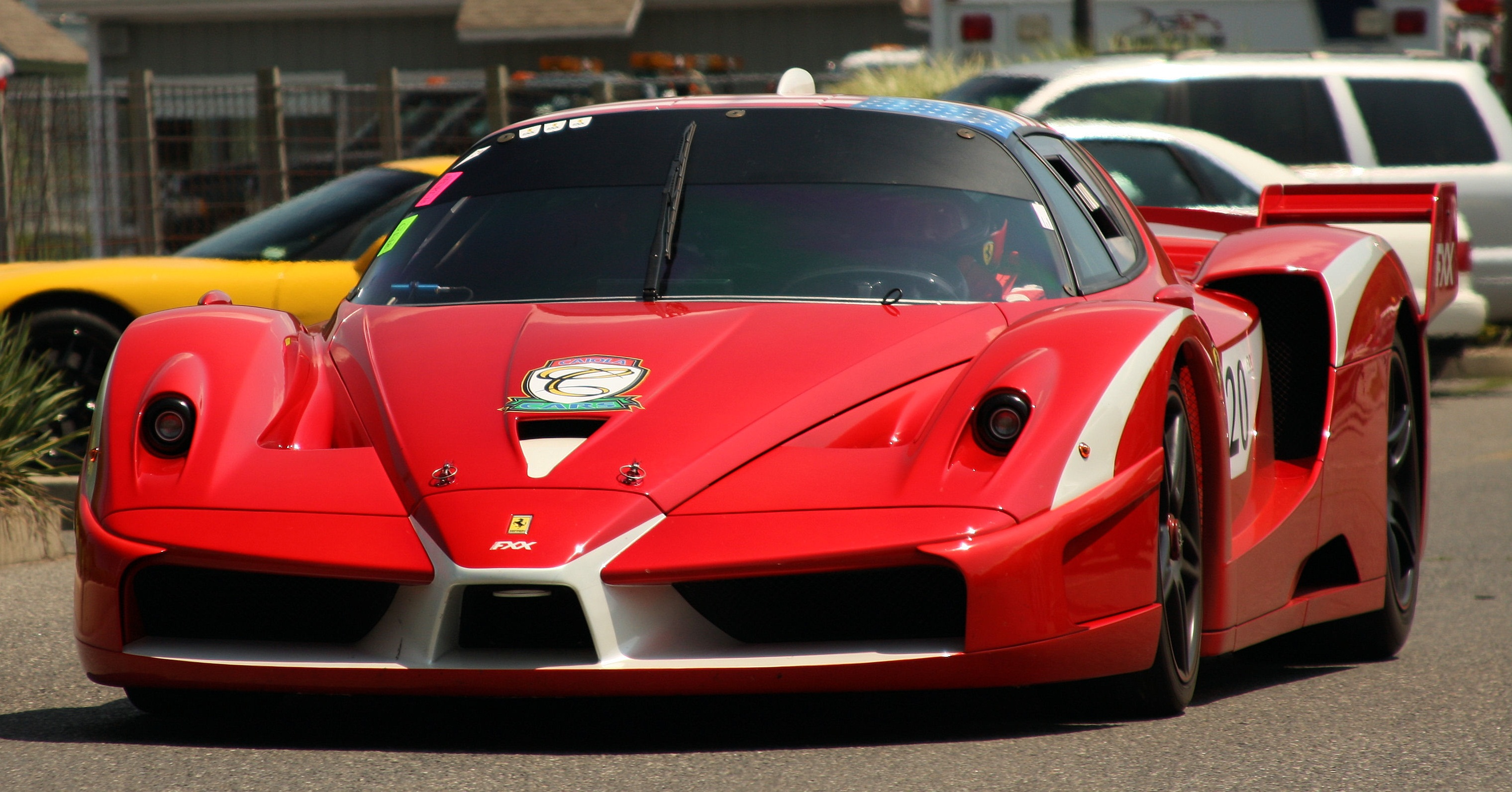 FXX Evo ready to fight.